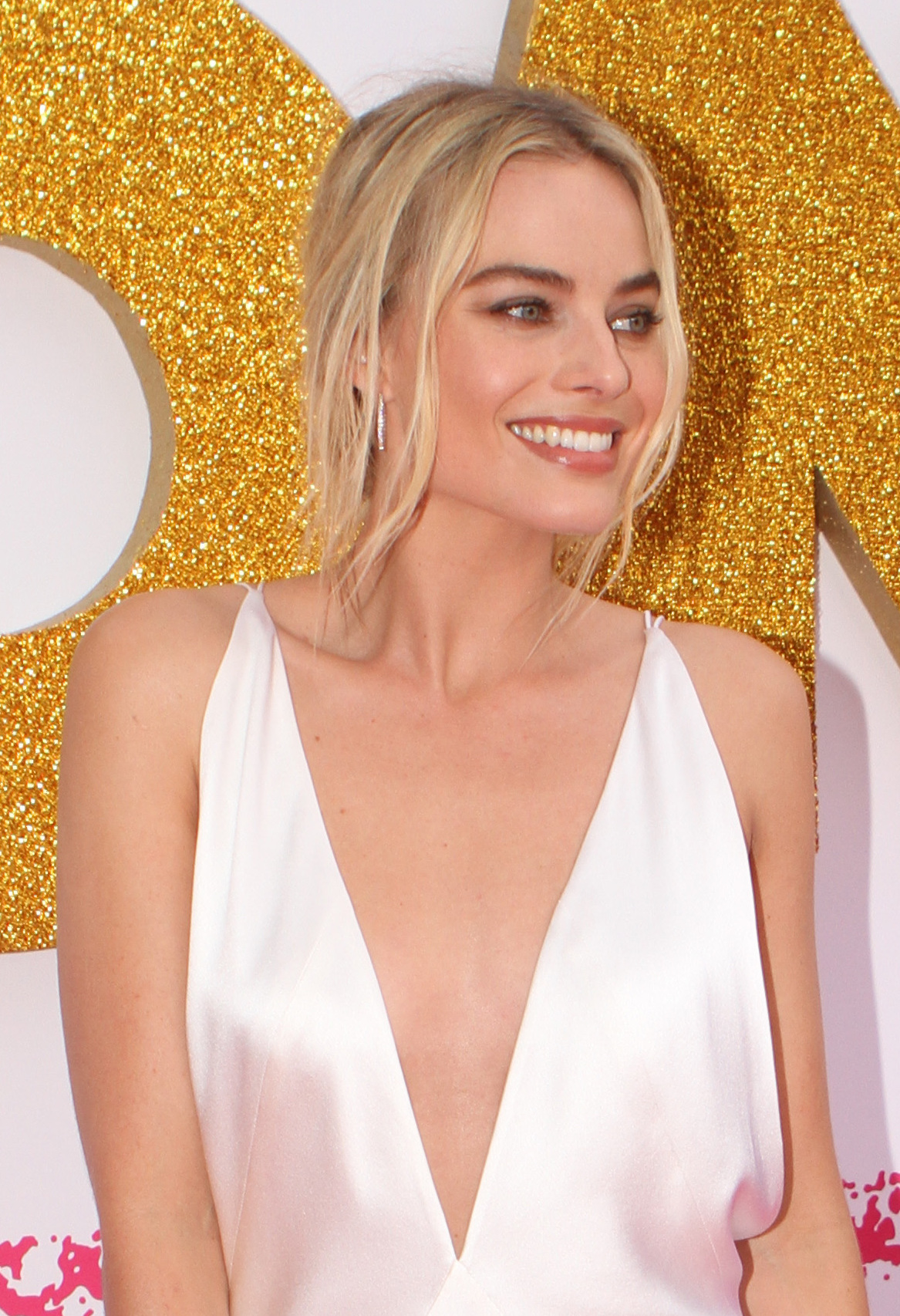 SYDNEY, AUSTRALIA - JANUARY 23 Margot Robbie arrives at the Australian Premiere of 'I, Tonya' on January 23, 2018 in Sydney, Australia. (Photo by Eva Rinaldi